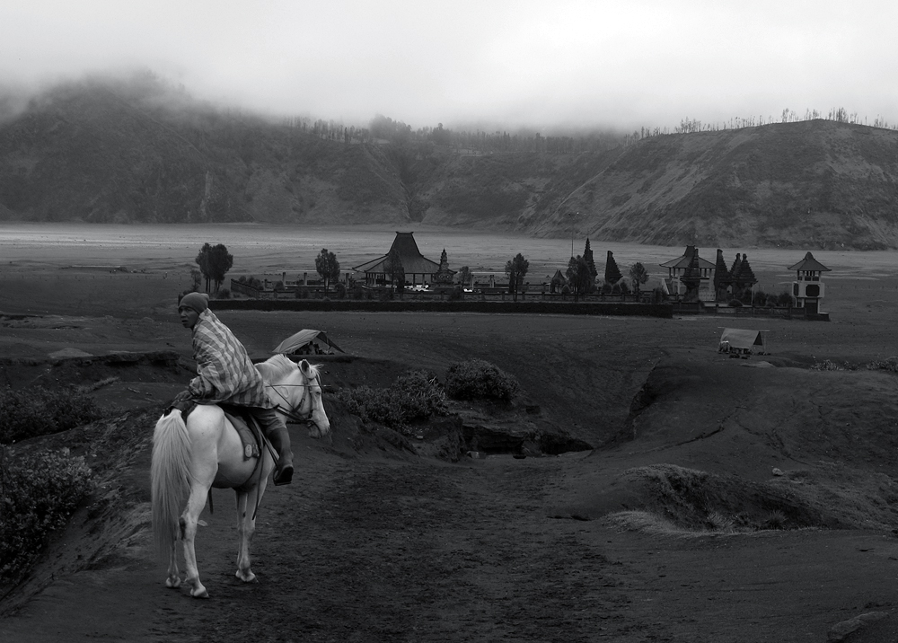 Mount Bromo also Gunung Bromo, located in the Tengger Caldera, is one of the most popular tourist attractions in East Java, Indonesia. It is an active volcano and part of the Tengger massif, and even though at 2329 meters it is not the highest peak of the massif, it is the most well known (